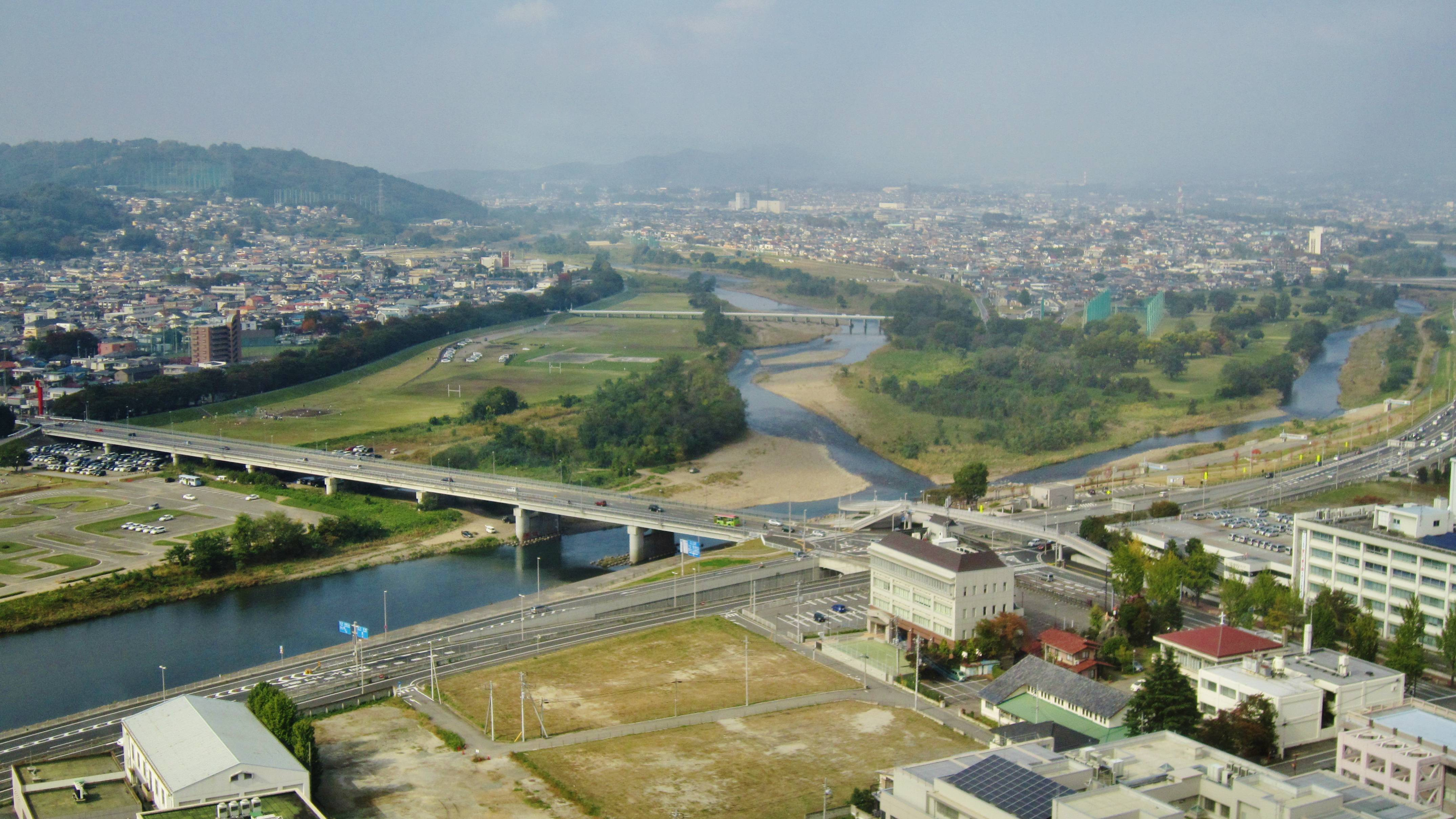 Karasu River and Usui River, view from Takasaki city office.